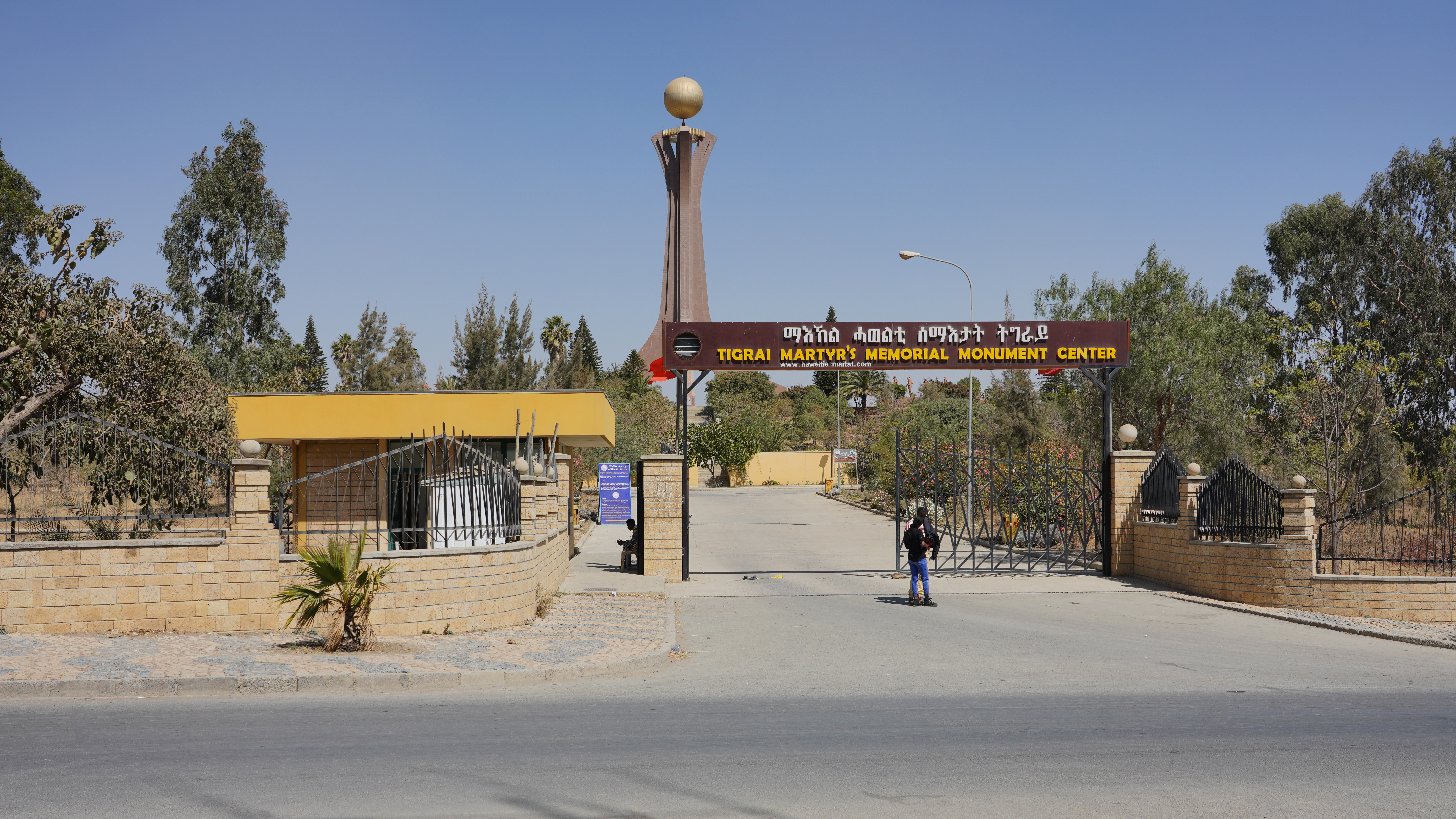 Monument to Tigray Martyrs in Mekele, Ethiopia